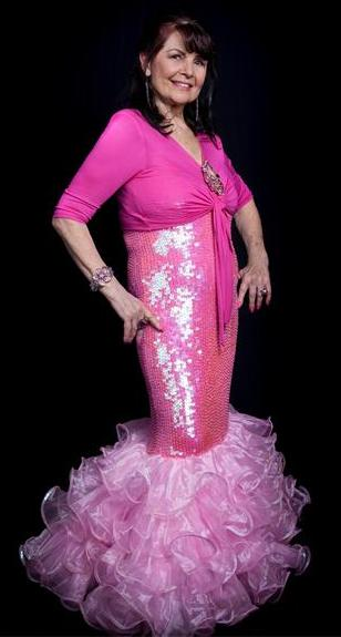 Min Shaw tydens haar 80ste verjaardag in Krugersdorp 2014